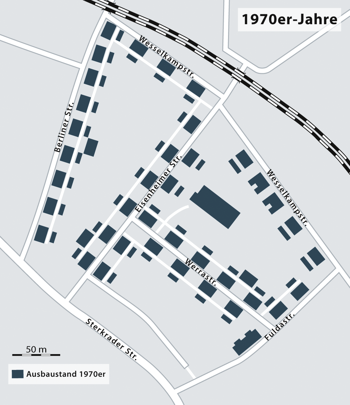 Siedlung Eisenheim (Oberhausen, Germany) in the 1970s